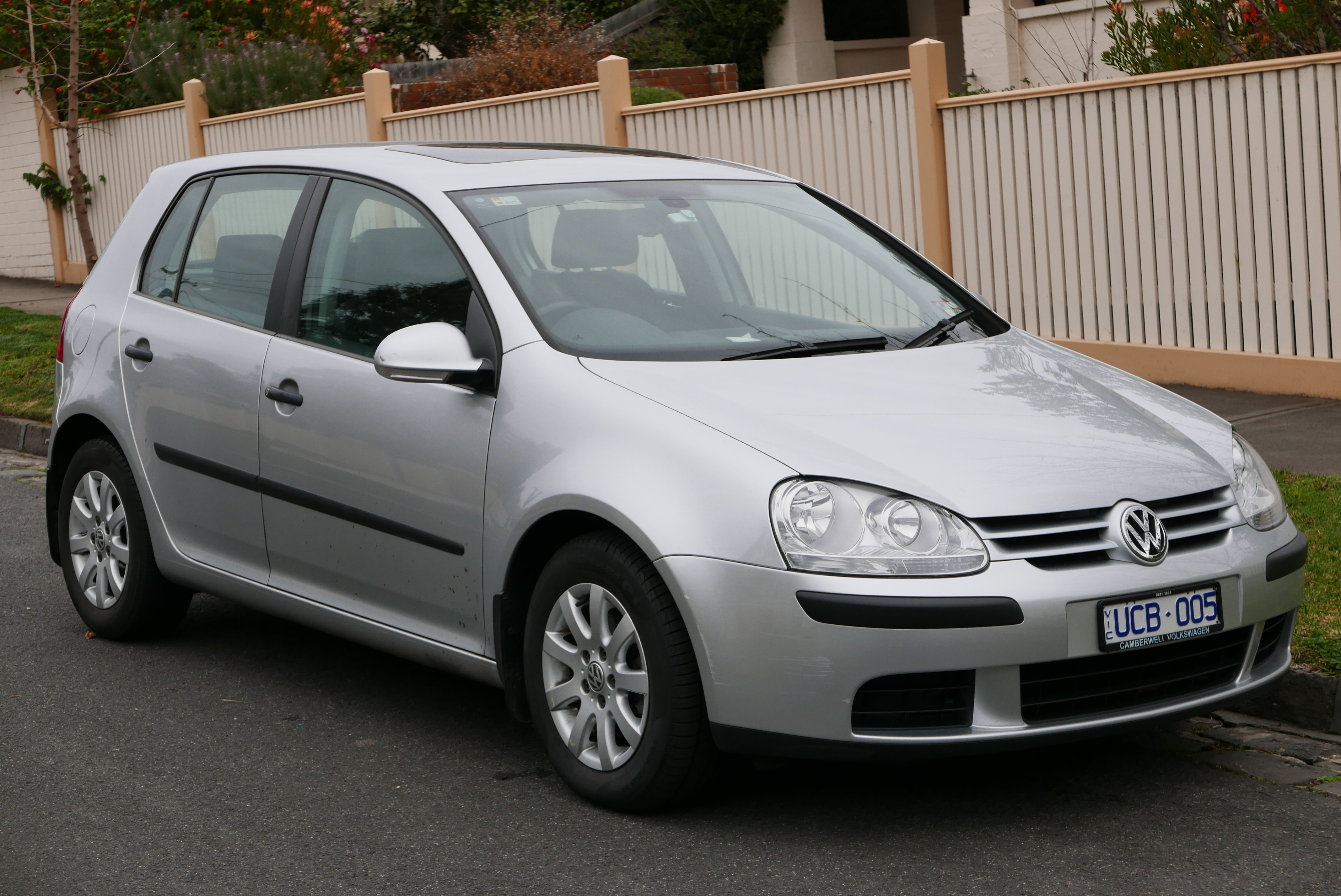 2005 Volkswagen Golf (1K) Comfortline 2.0 FSI 5-door hatchback. Photographed in Kew, Victoria, Australia. Vehicle registration enquiry resultsJurisdictionVictoriaRegistrationUCB005Chassis codeWVWZZZ1KZ5U030454Engine codeBLR029390Compliance date2005-09Year of manufacture2005